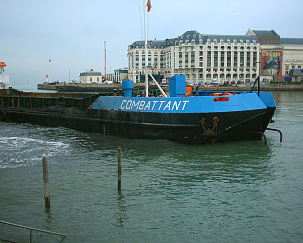 Barge Combattant MMSI Number: 227007320 Callsign: FU5826 Length: 55 m Beam: 10 m